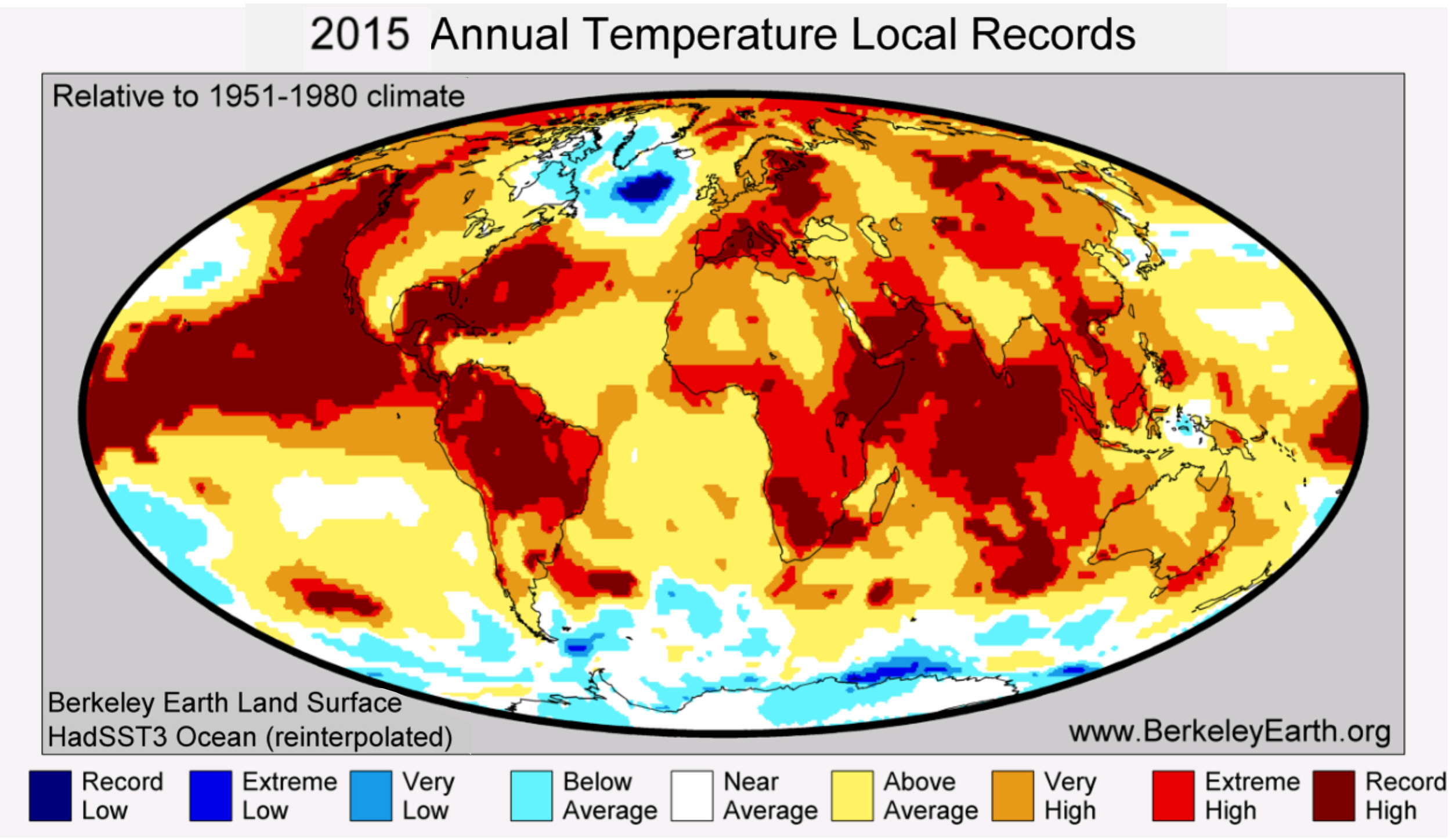 Temperature map of regions where record highs and lows were set in 2015